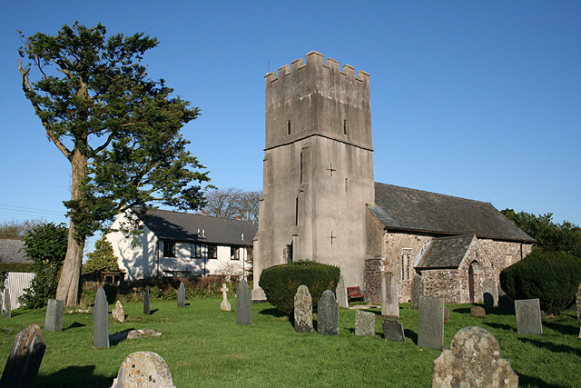 St Mary’'s parish church, Mariansleigh, Devon, seen from the southwest. The village name suggests the original dedication was to St Marina and this may have been lost at the Reformation. The church was restored after being gutted by fire in 1932.